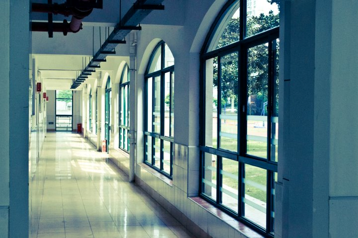 A building of Shanghai Jincai Experimental Junior Middle School (Inside)